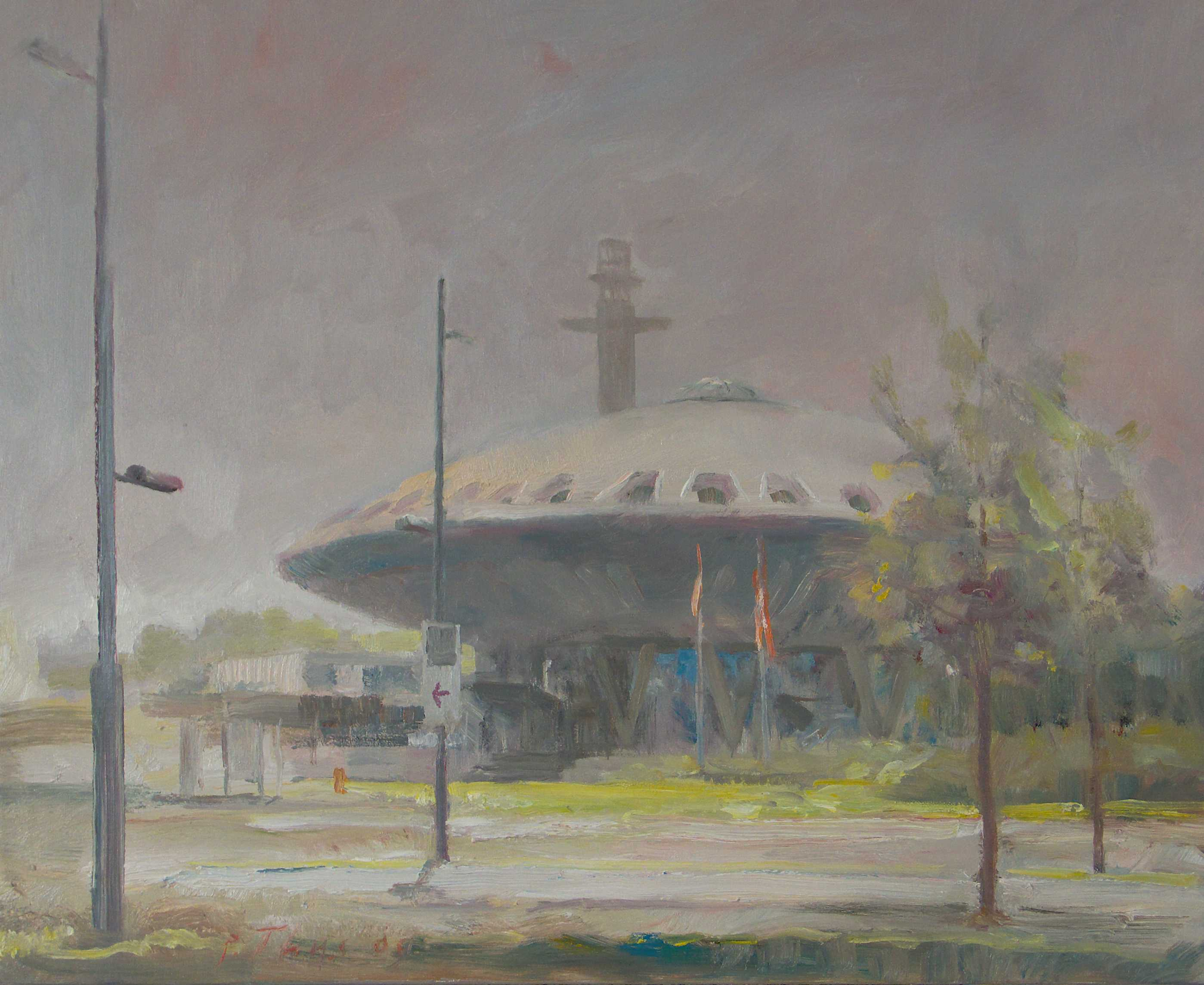 'Evoluon' oil on linen 60x85cm